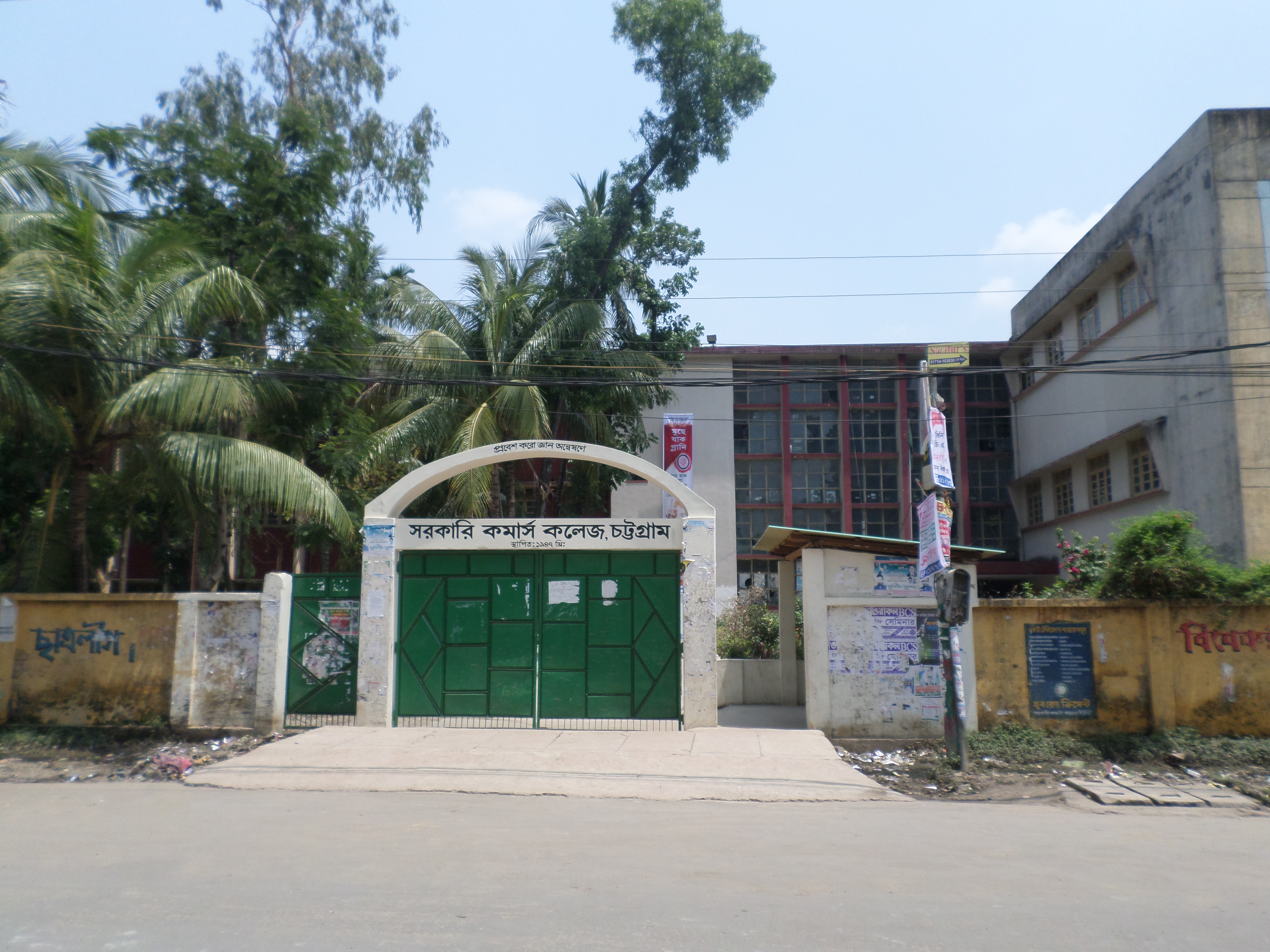 govt. commerce college